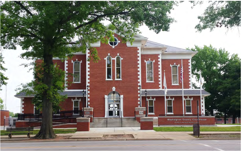 Wash Co IL Courthouse after 2016 Renovations